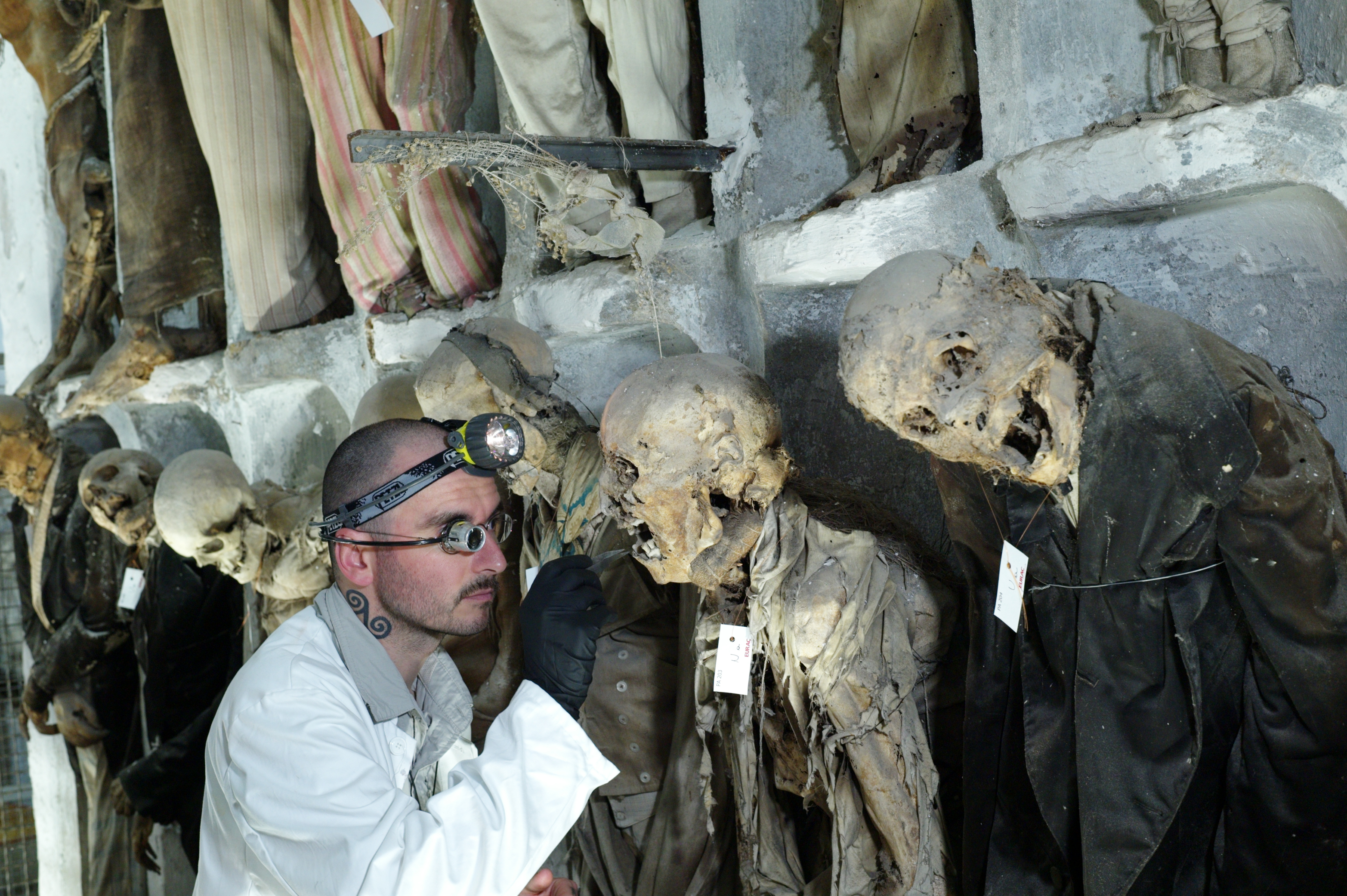 Forensic Biologist Mark Benecke, Ph.D. working on the largest mummy collection in Palermo, Italy (Catacombe dei Cappuccini). Here: Insect remains collection at the request of the abbot of the monastery to determine life circumstances and storage conditions.